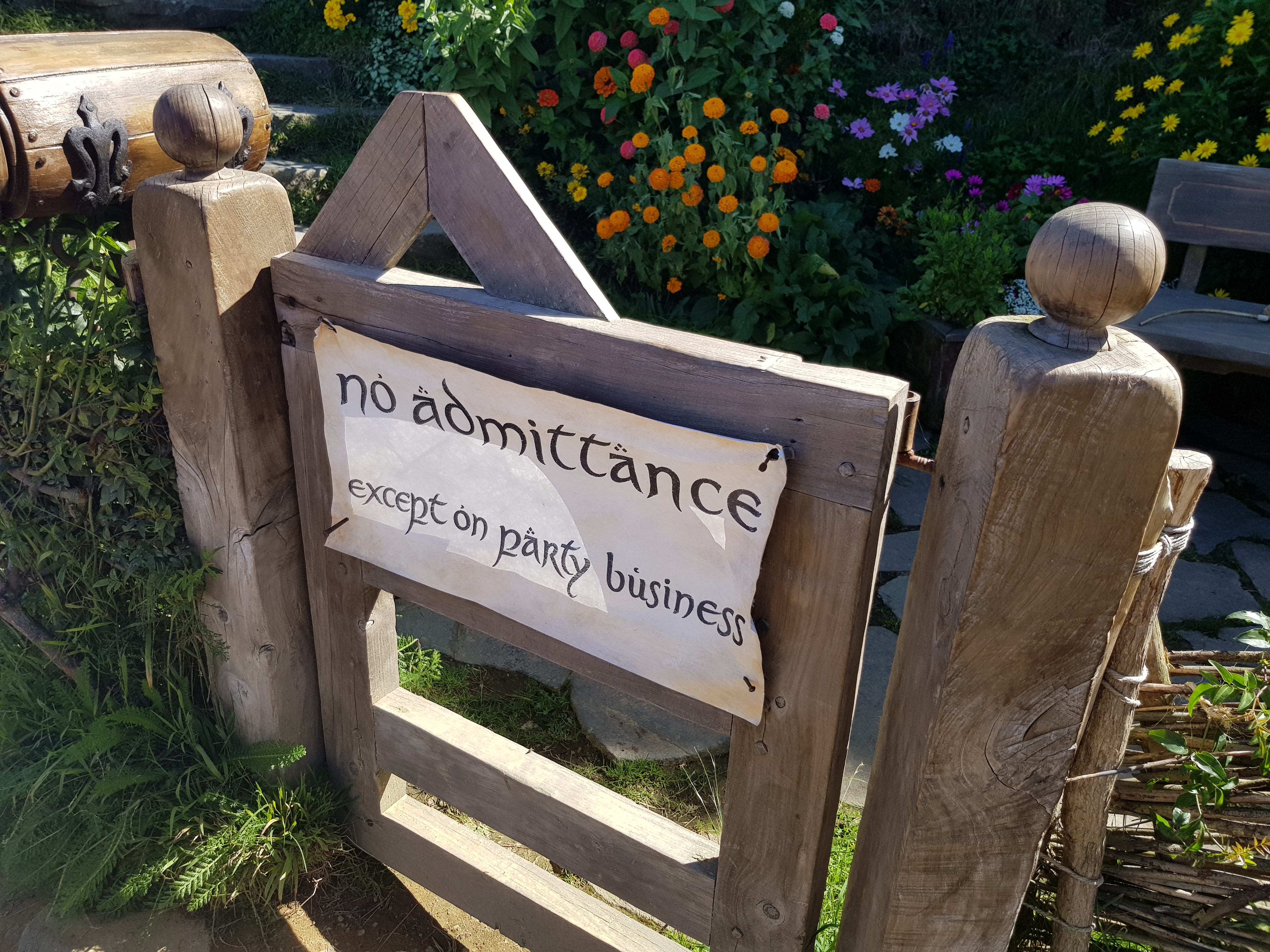 The "No admittance except on party business" sign at Hobbiton Movie Set in Matamata, New Zealand.